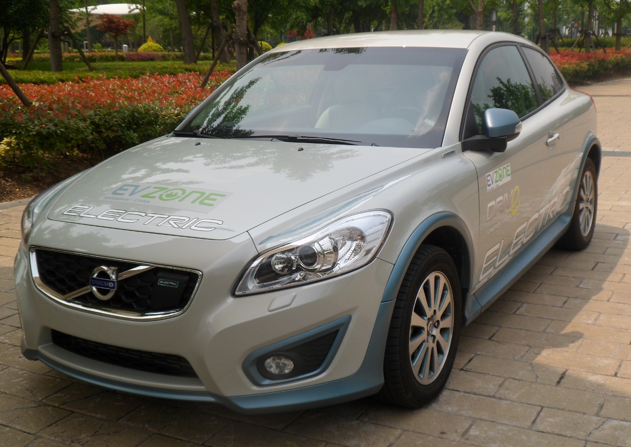 Volvo C30 DRIVe facelift photographed in Anting, Shanghai municipality, China.